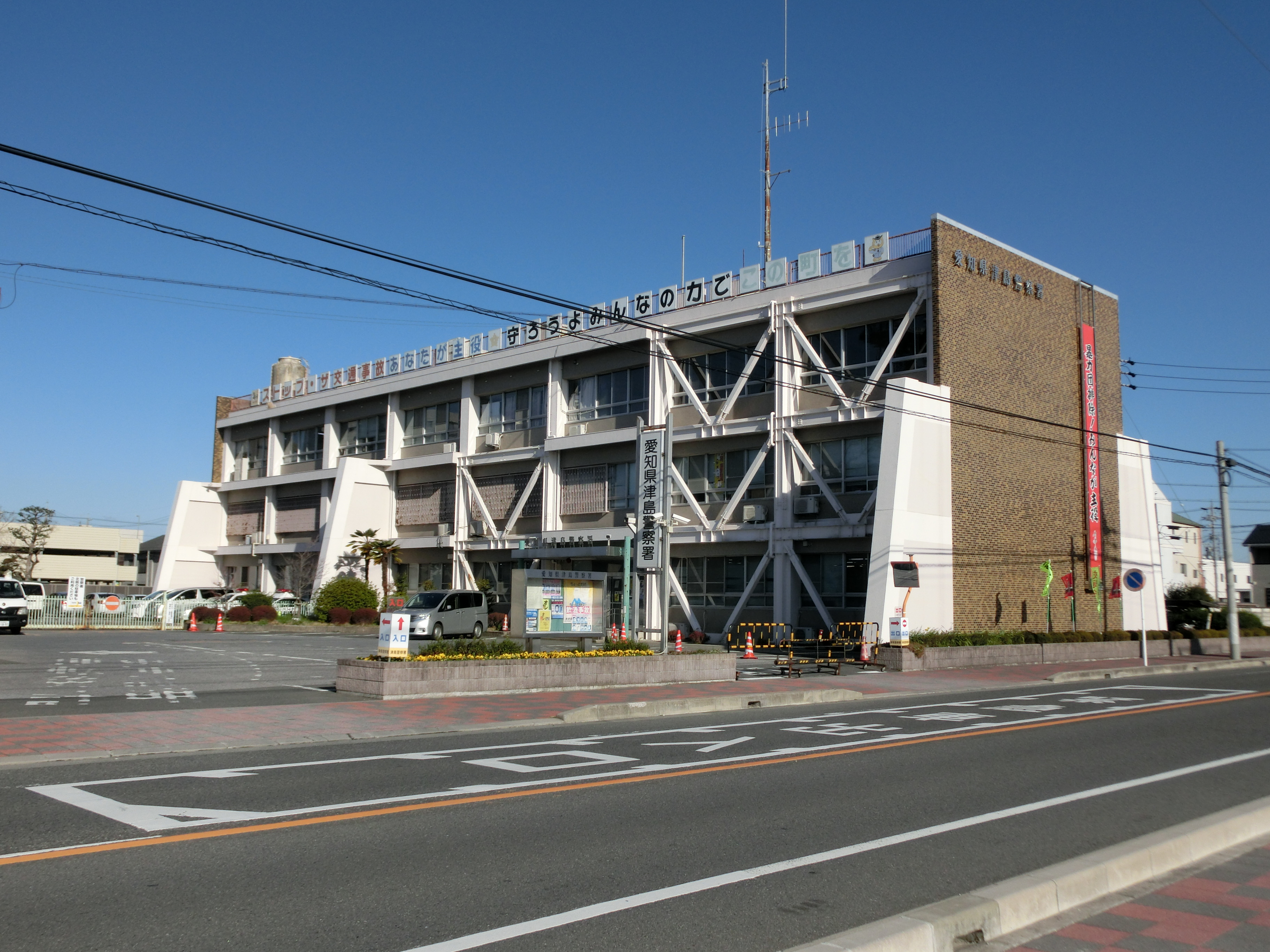 Tsushima Police Station